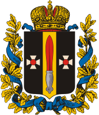 Coat of arms of Elisabethpol Governorate, Russian Empire